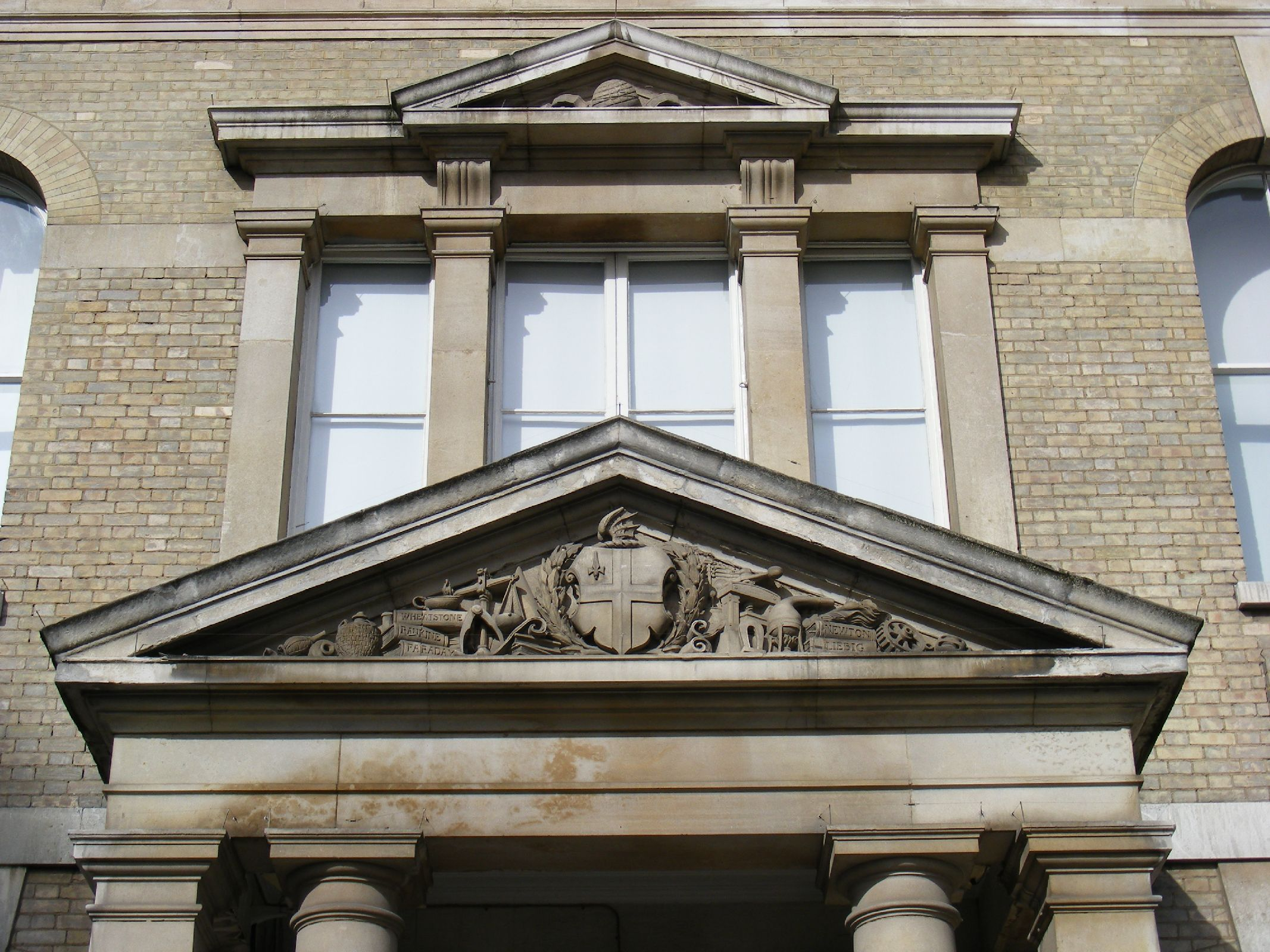 Portico at the entrance of the bulding of the former Finsbury Technical College (established 1883, closed 1926) in London